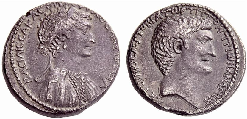 M. Antonius. Tetradrachm, Antiochia ad Orontem Syriae mint circa 36, Obv.: BACIΛICCA KΛEOΠATPA ΘEA NEΩTEPA Diademed bust of Cleopatra r. Rev.: ANTΩNIOC AYTOKPATΩP TPITON TPIΩN ANΔPΩN Bare head of M. Antonius